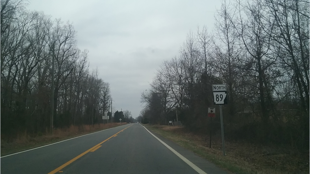 This picture was taken east of Mayflower at it's eastern (Southern?) terminus on December 30, 2017.